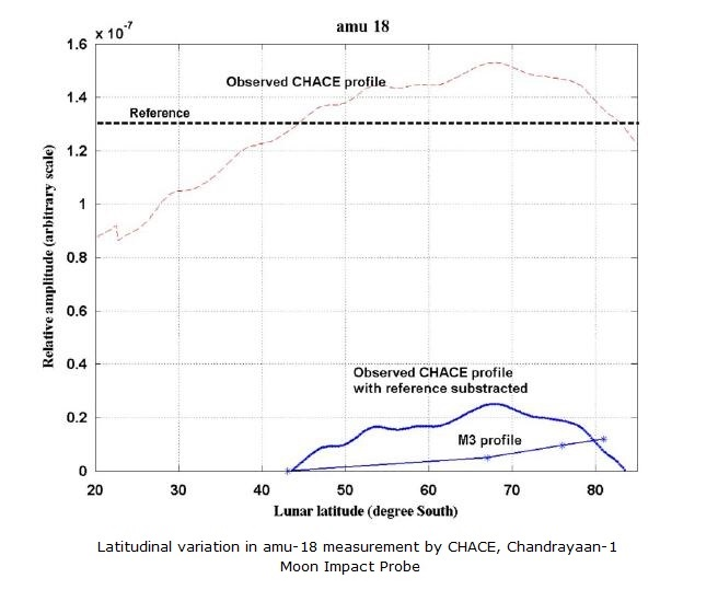 Direct evidence of lunar water though CHACE output profile